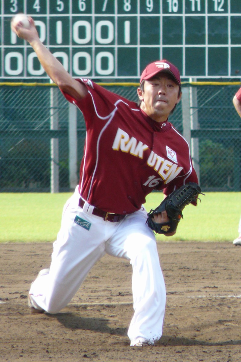 Hiroki-Yamamura